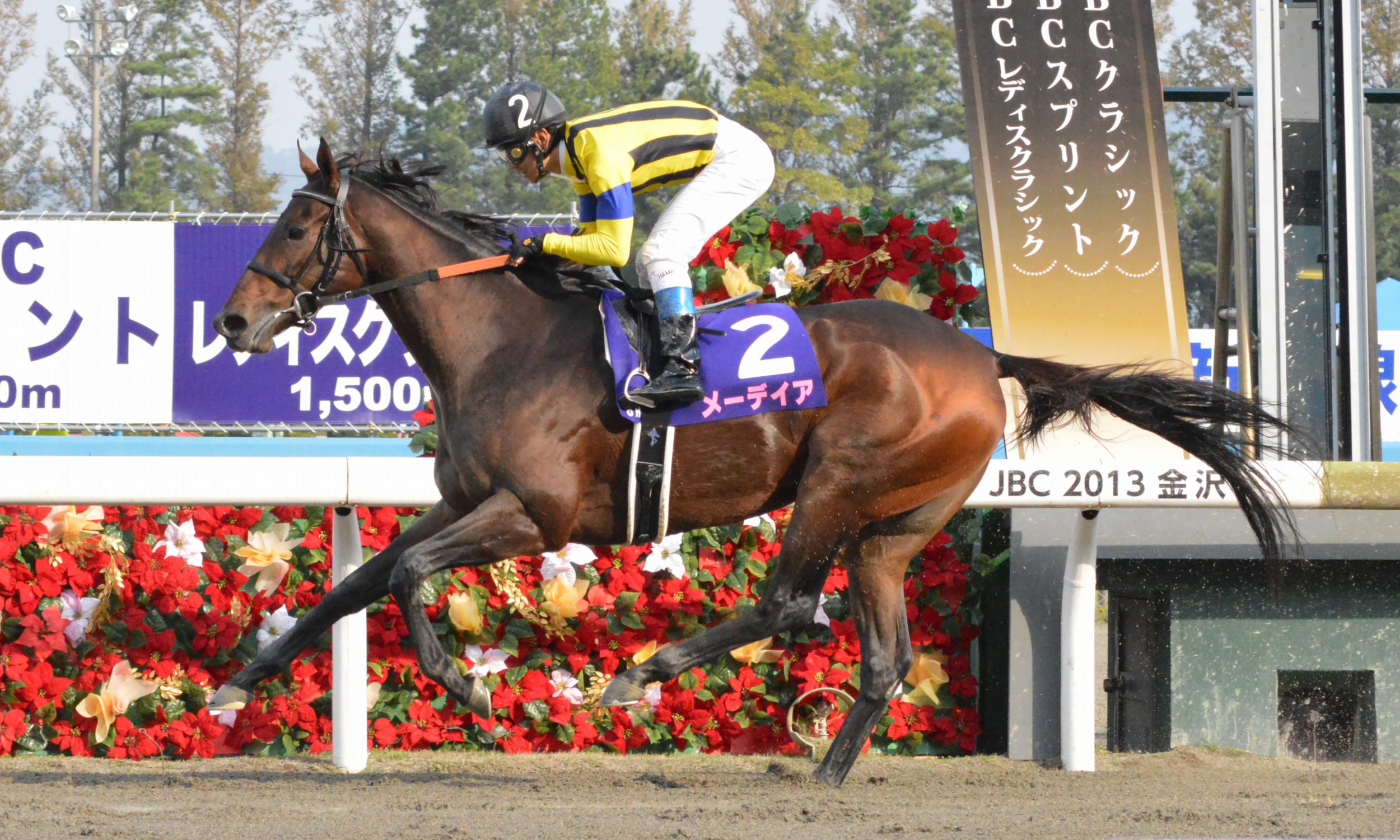 Japanese race horse Medeia at Kanazawa racecourse. Kanazawa (JPN) 04 Nov 2013 JBC Ladies' Classic (Local Grade 1) (Dirt) (3yo+) (7f110y) 71/2f Sloppy RankHorse NameOddsAgeWgtTrainerJockey1stMedeia (JPN)1/100FF58-9Kazuhide SasadaSuguru Hamanaka2ndActi Beauty (JPN)182/10F68-9Mitsuharu ShibataHayato Yoshida3rdKimon Red (JPN)148/10F58-9Hiroki SakiyamaKeita Tosaki4th - 12th/omission